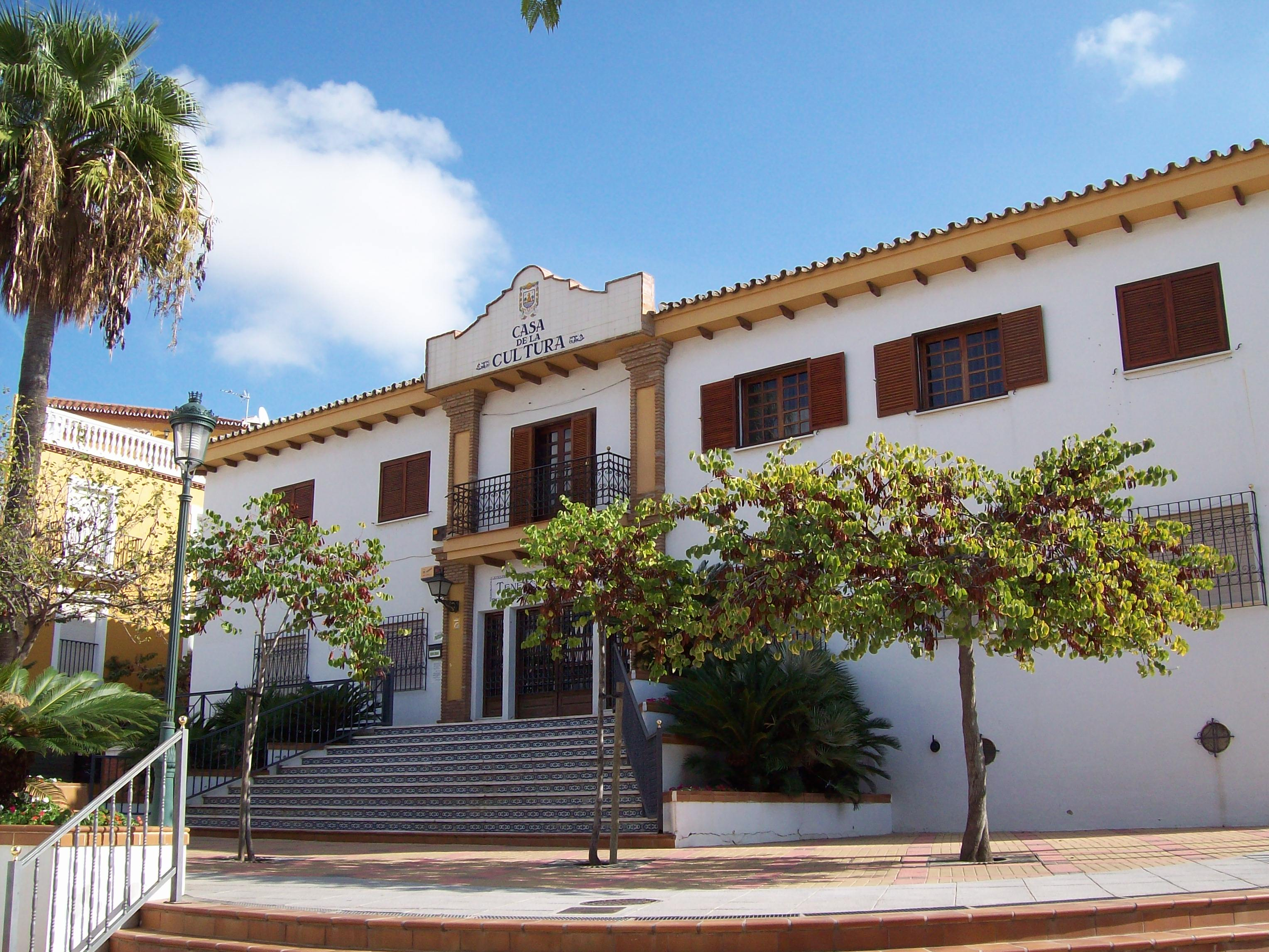 House of the Culture, Arroyo de la Miel, Benalmádena, Málaga, Spain